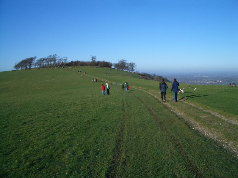 Chanctonbury Ring, South Downs, Sussex, December 2004